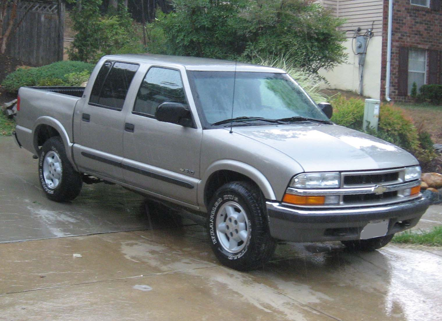 2001-2005 Chevrolet S-10 photographed in USA.